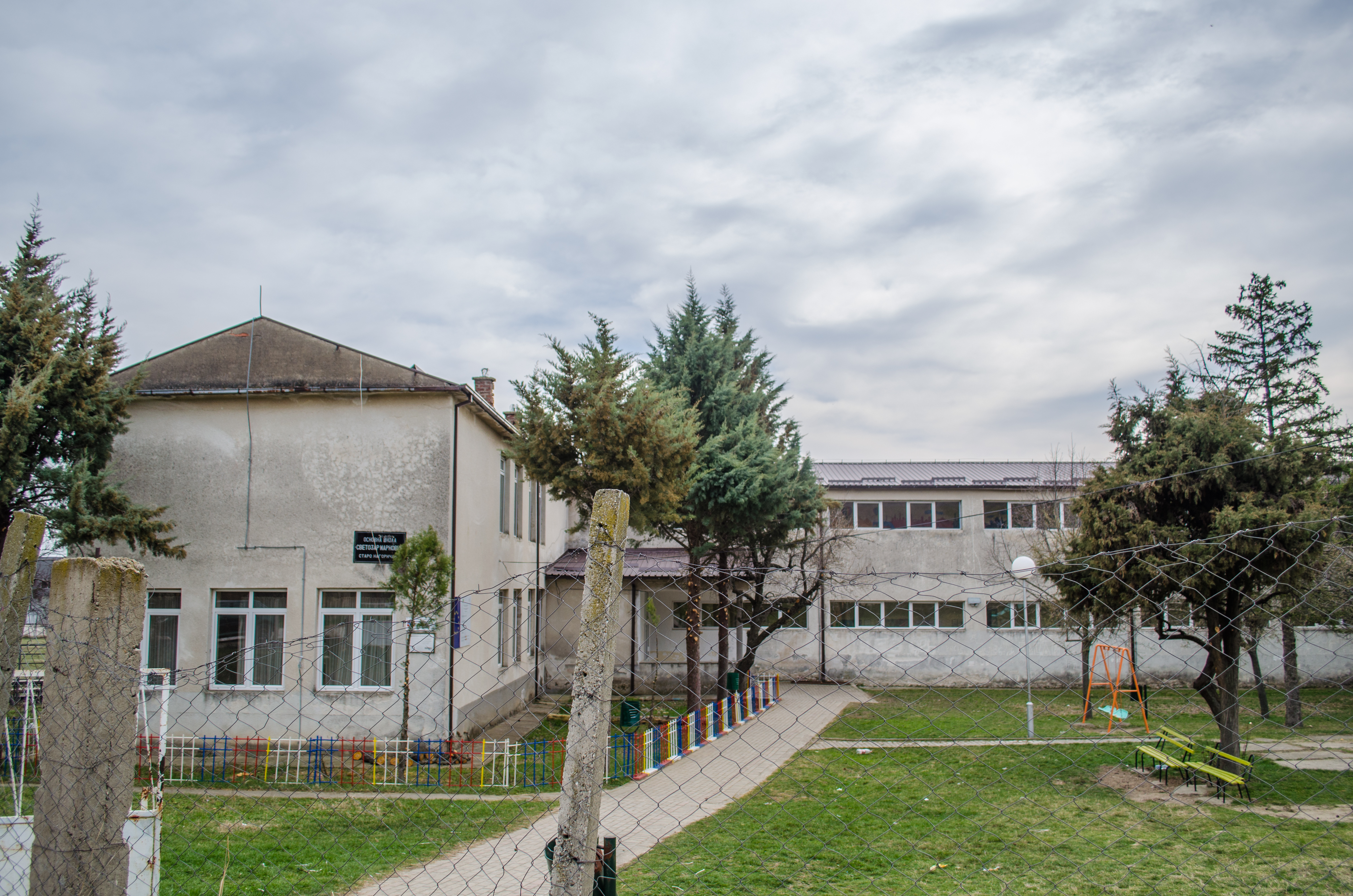 School in Staro Nagoričane